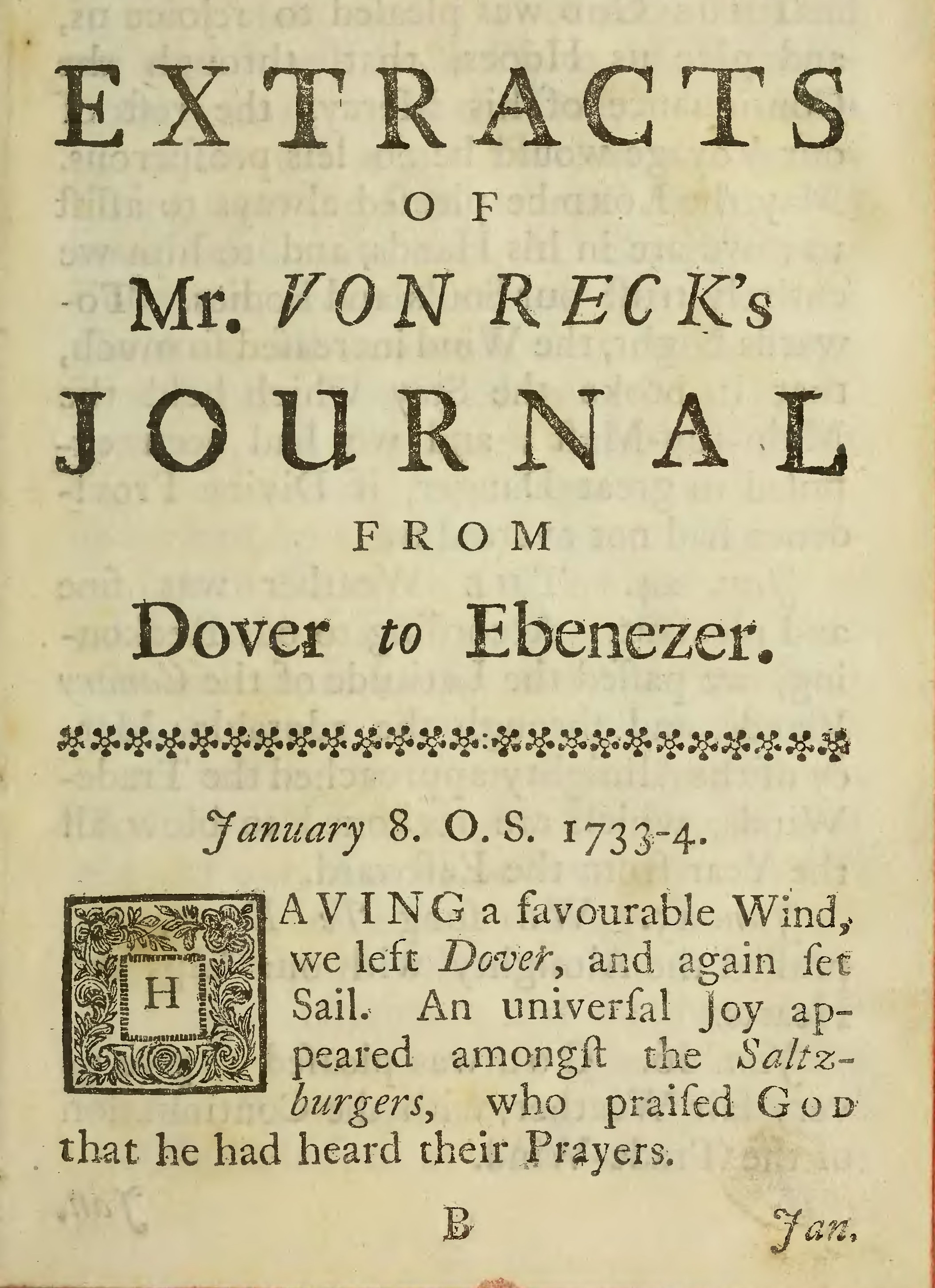 Abbreviated translation of two manuscript journals written in German